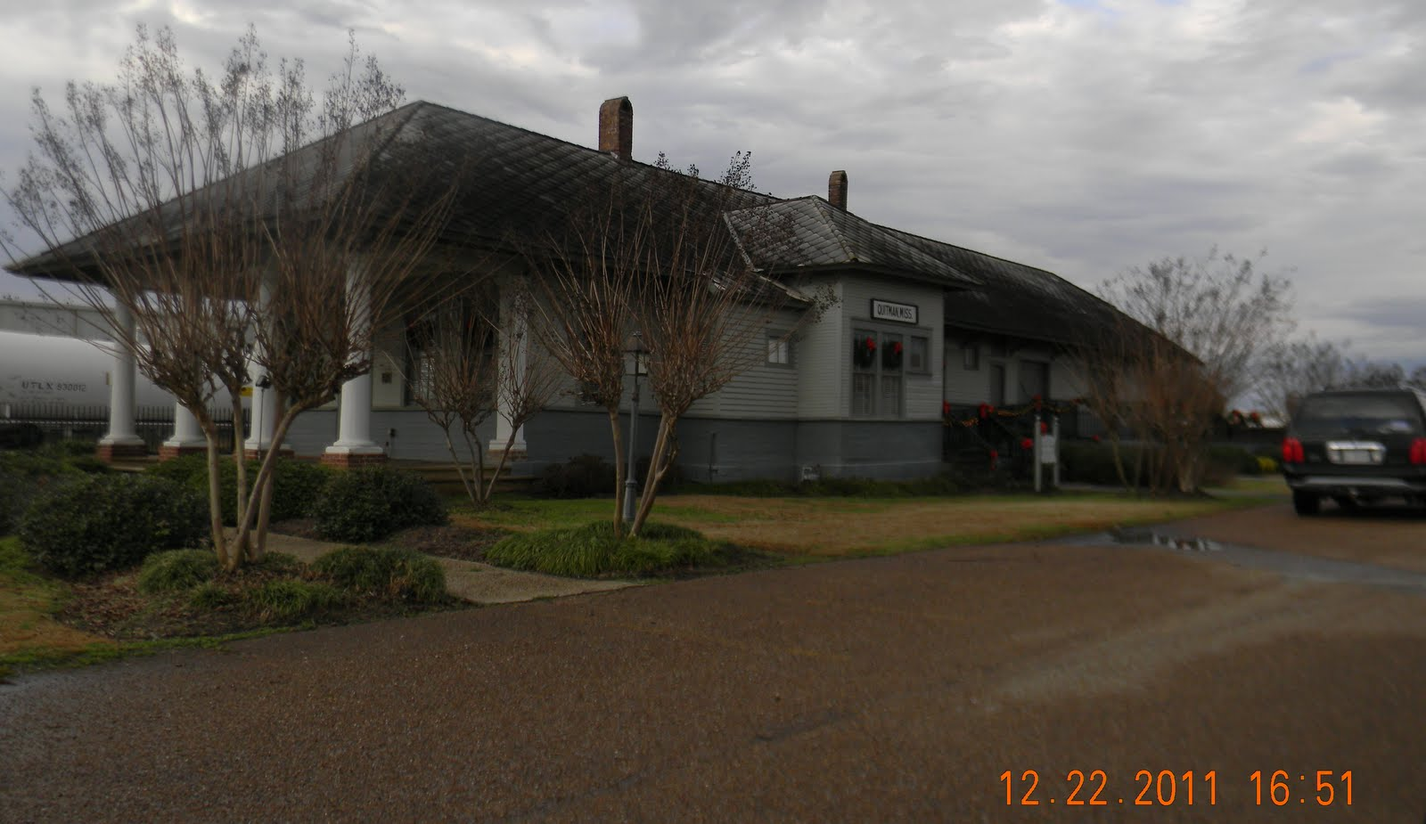 Quitman Depot, Eastern side of the Illinois Central Gulf railroad tracks, near the junction of Main St. and Railroad Ave. Quitman